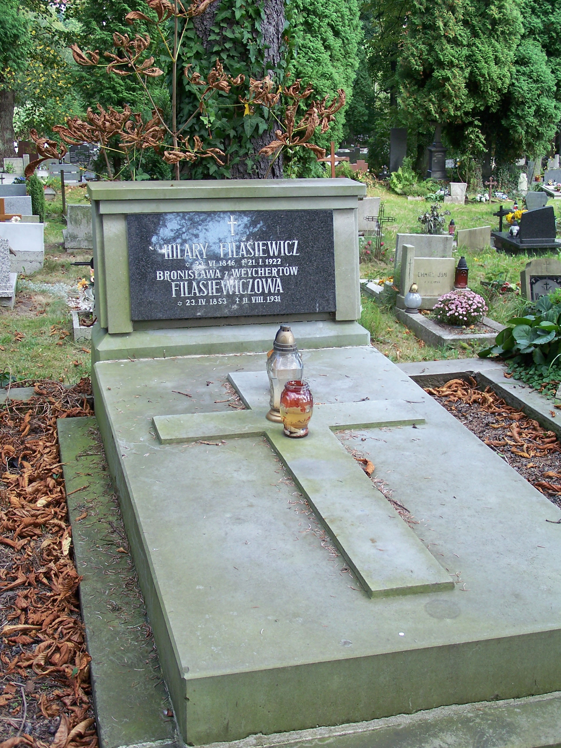 Grave of Hilary Filasiewicz at the Communal Cemetery in Cieszyn, Poland